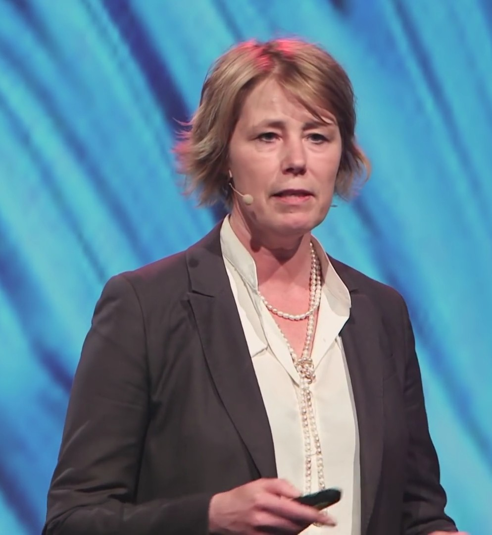 Find out more at: The world is changing in a more and more rapid pace. It took the car 75 years to reach 50 million users, but I-pod only three years. It will never be so slow as it is today. Tomorrow the pace will be even faster. We are pushing ourselves into the networked society where behaviours and communication is non-linear. The paradox is that as users and consumers - we are pushing this change - but as employees at companies we are slowing down the change. Johanna Frelin Creative Commons Attribution-ShareAlike 3.0 Germany (CC BY-SA 3.0 DE)